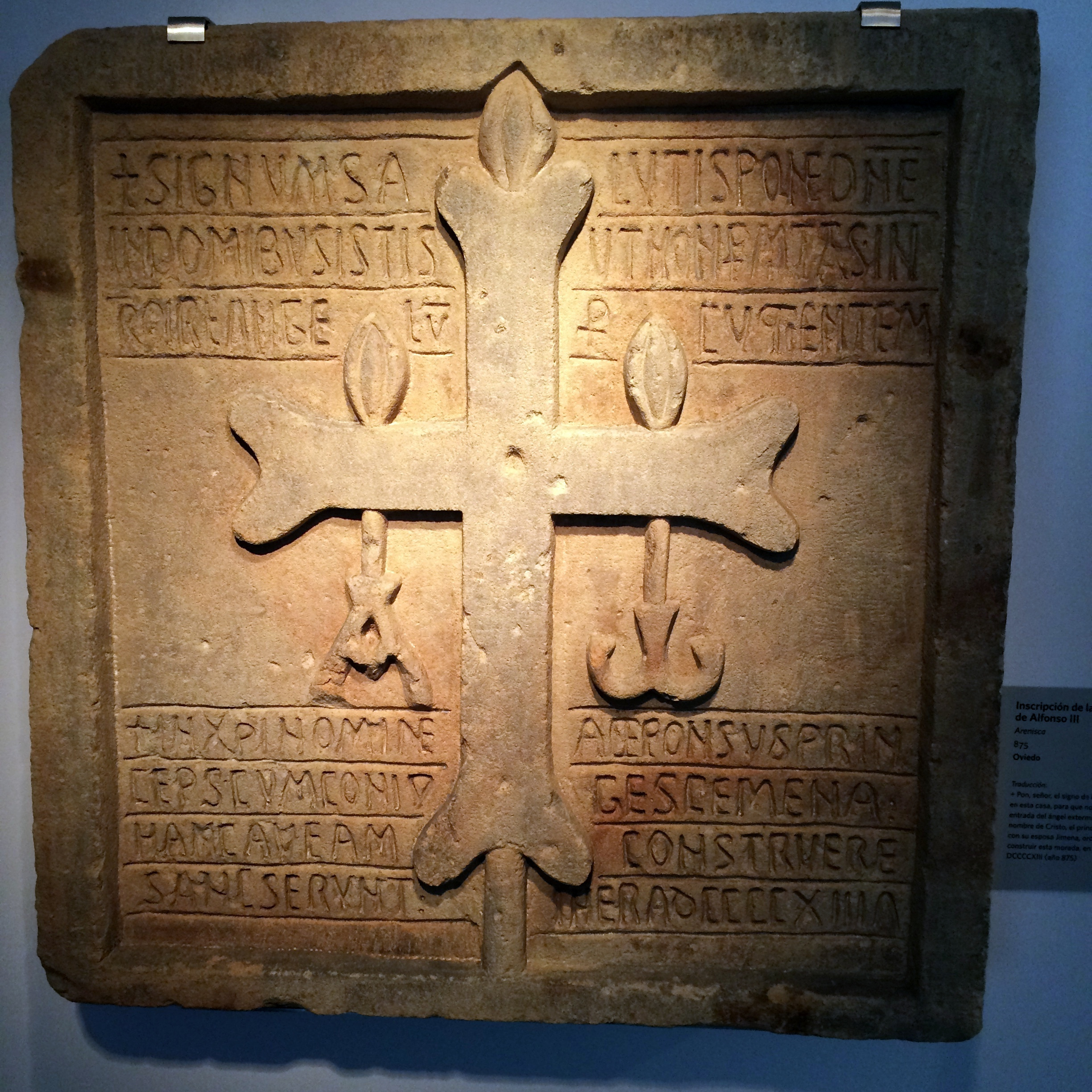 Inscription of Alfonso III's fortress in Oviedo, Asturias, Spain. Dated in 913 of the Spanish era = 875 CE. Museo arqueologico de Asturias (Spain)